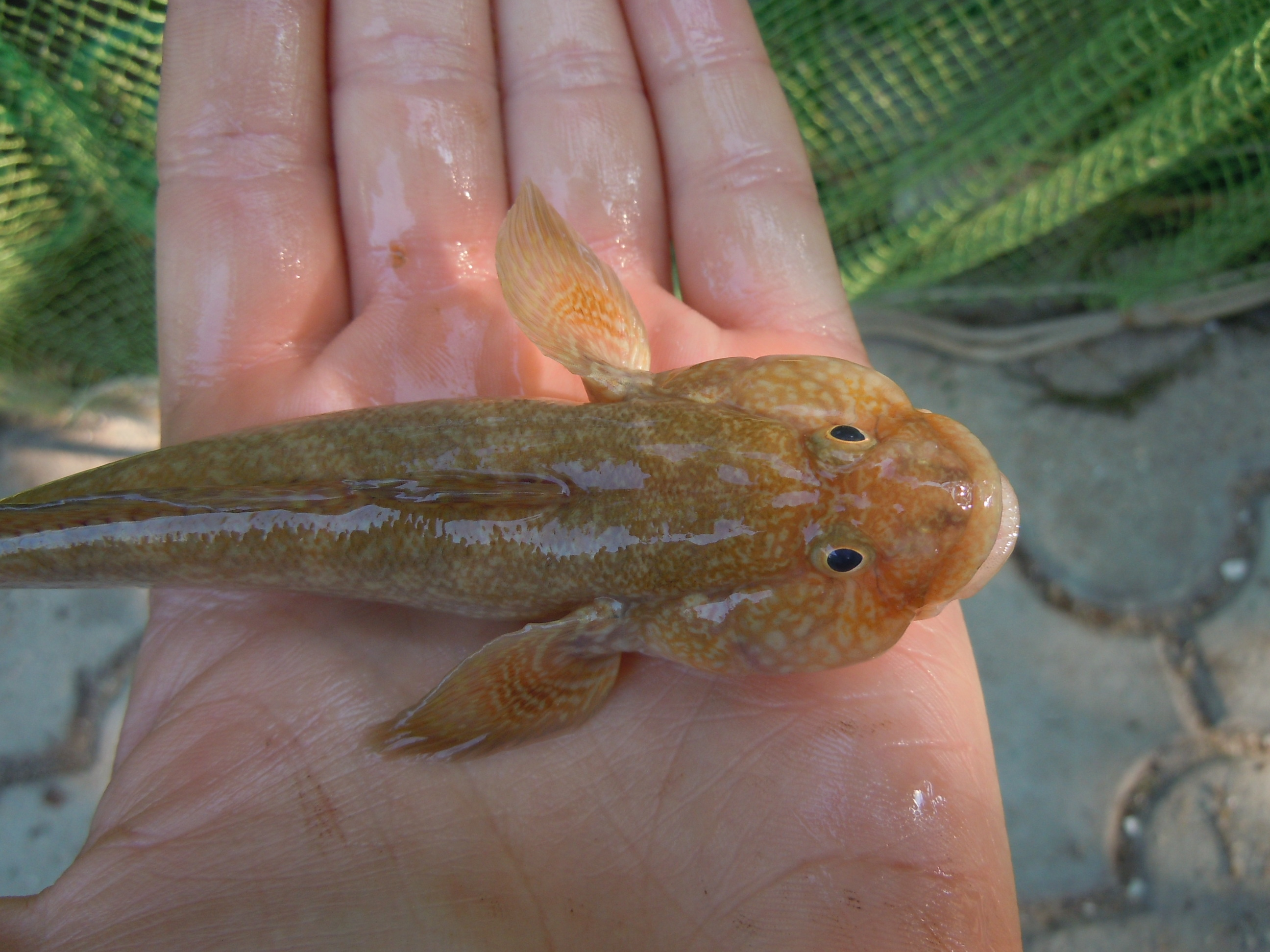 The mushroom goby (Ponticola eurycephalus) from the Dnieper Estuary, Ukraine